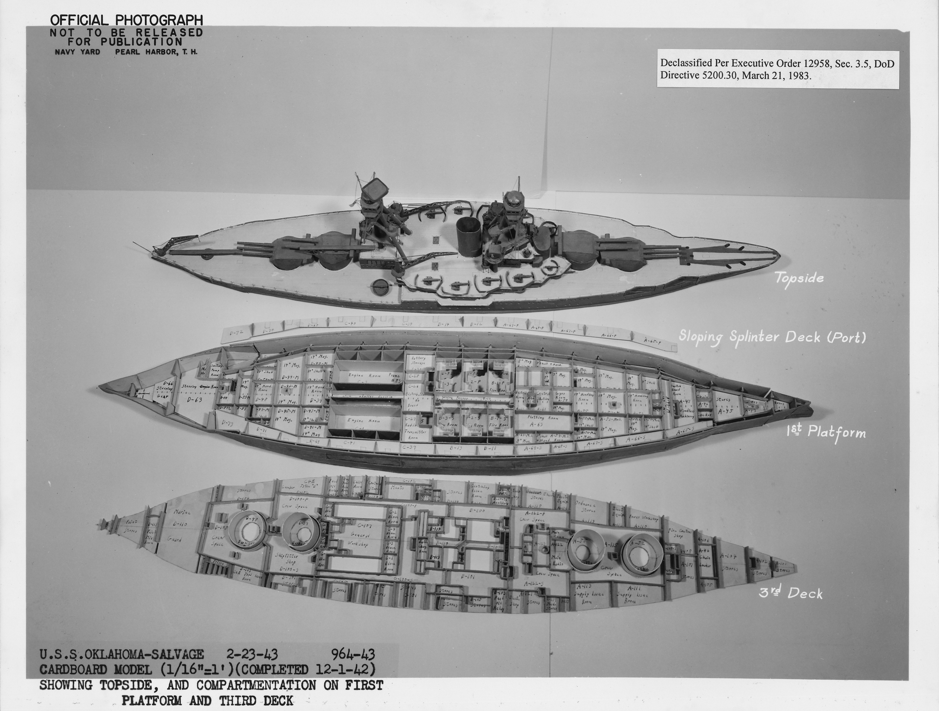 Scope and content: This is one of a collection of photographs of salvage operations at Pearl Harbor Naval Shipyard taken by the shipyard during the period following the Japanese attack on Pearl Harbor which initiated US participation in World War II. The photographs are found in a number of files in several shipyard records series.